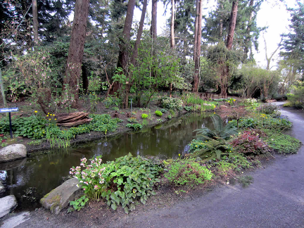 A pond at the Finnerty Gardens, University of Victoria, Victoria, BC, Canada.